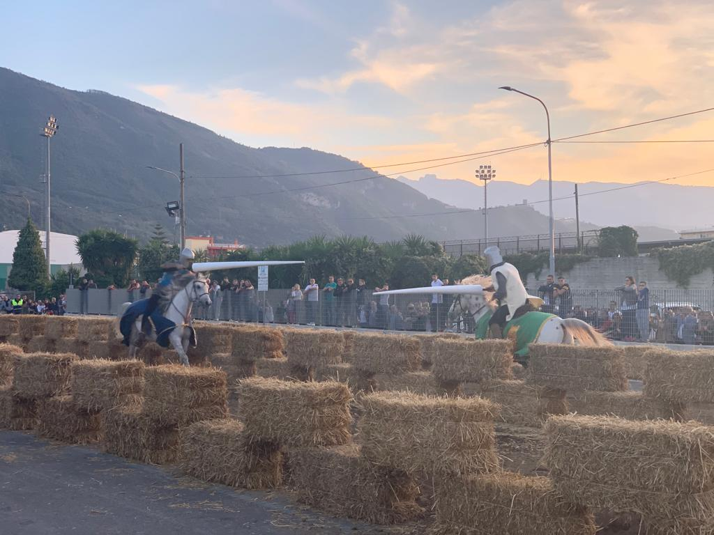 Moment of the clash between two knights represented two ancient noble Angrese families, respectively the Coronati in blue and the Council in light green, during the day of the clash between knights, and in the evocation of the medieval historical games of the city-Angri (Sa).